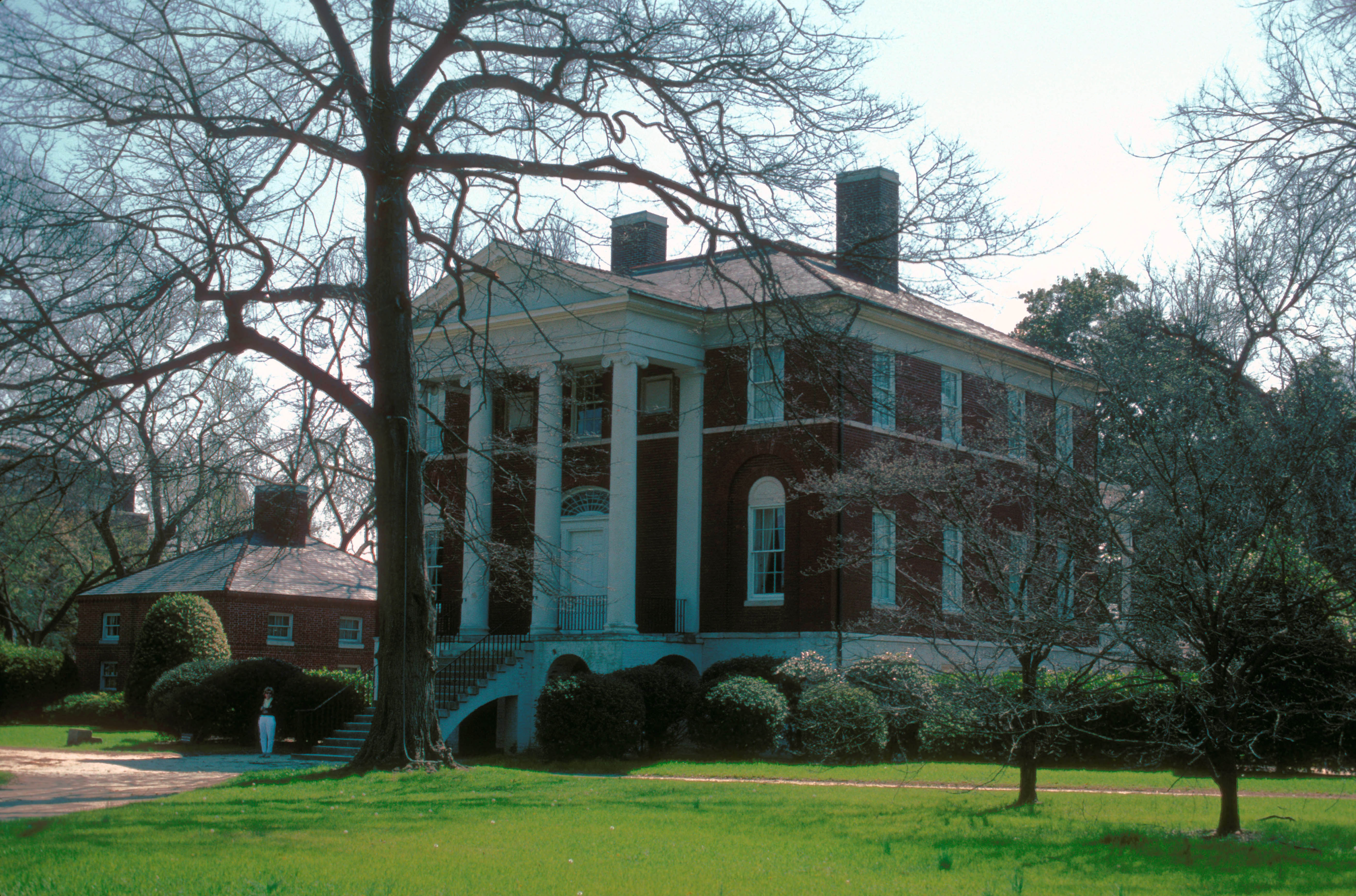 ALSO KNOWN AS ROBERT MILLS HOUSE; MILLS WAS THE FIRST FEDERAL ARCHITECT AND DESIGNED THE WASHINGTON MONUMENT. MANSION WAS DESIGNED IN 1823 FOR ANSLEY HALL, A PROMINENT COLUMBIA MERCHANT